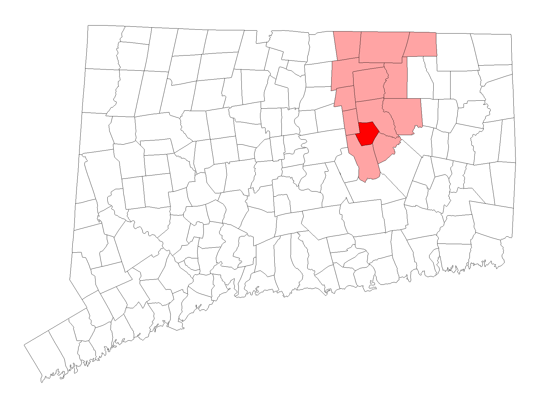 The location of Andover, Connecticut in the state of Connecticut.